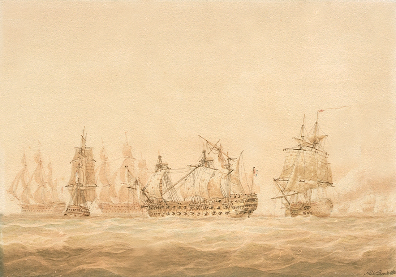 "The 'Agamemnon' engaging the Ca Ira', 13 March 1795" Sketch of HMS Agamemnon fighting French ship Ca Ira at the Battle of Genoa, 1795